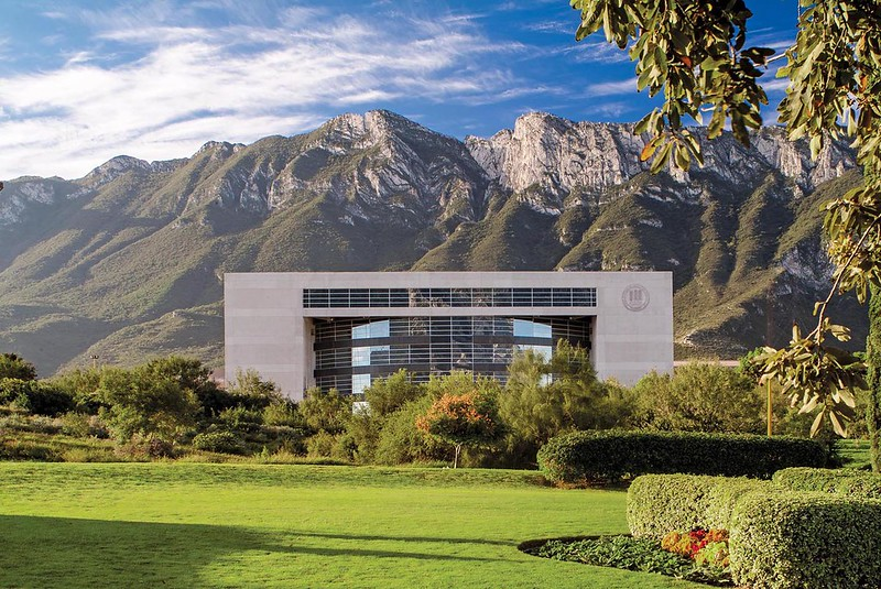 UDEM Universidad de Monterrey